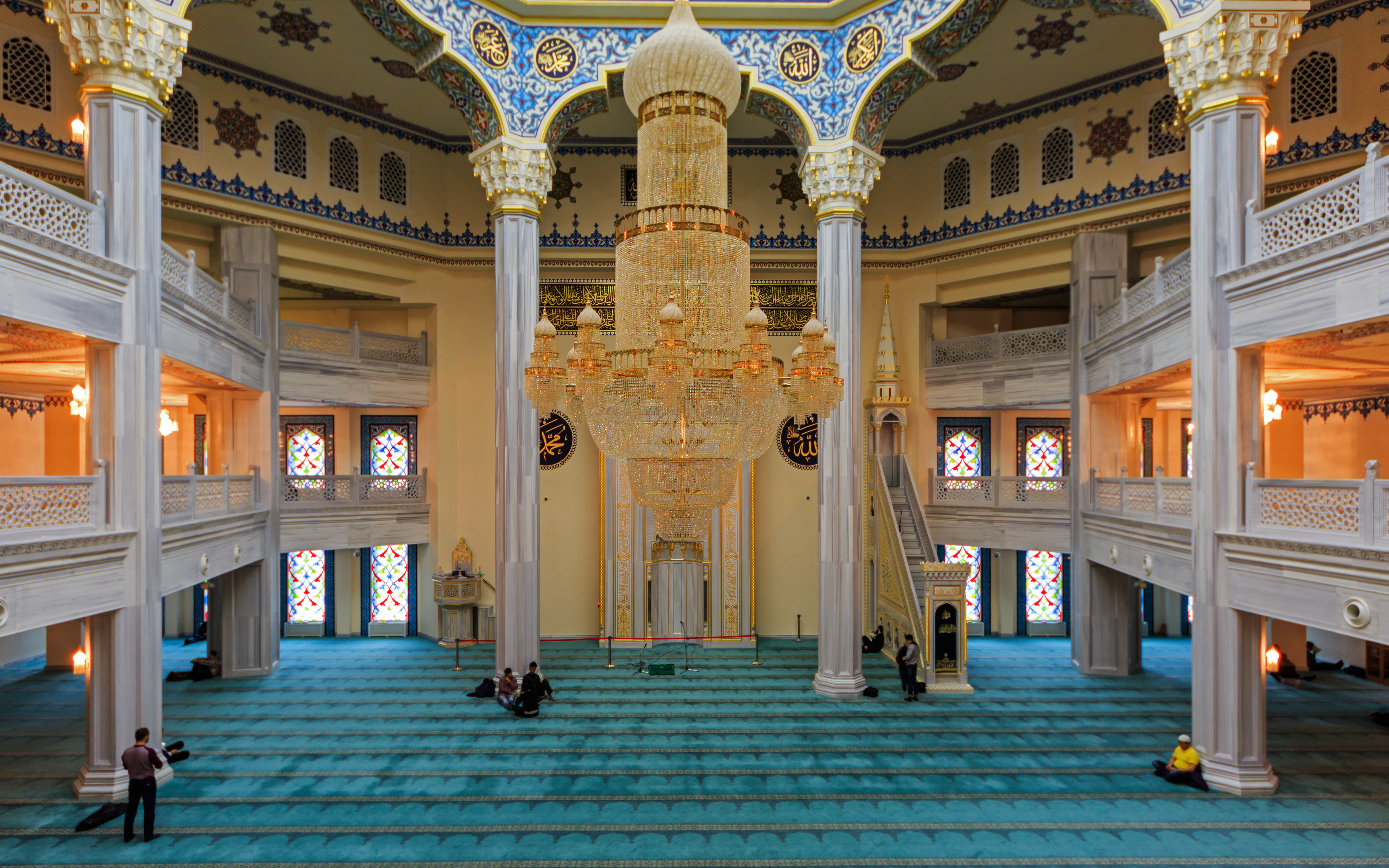 Moscow Cathedral Mosque (new), interior